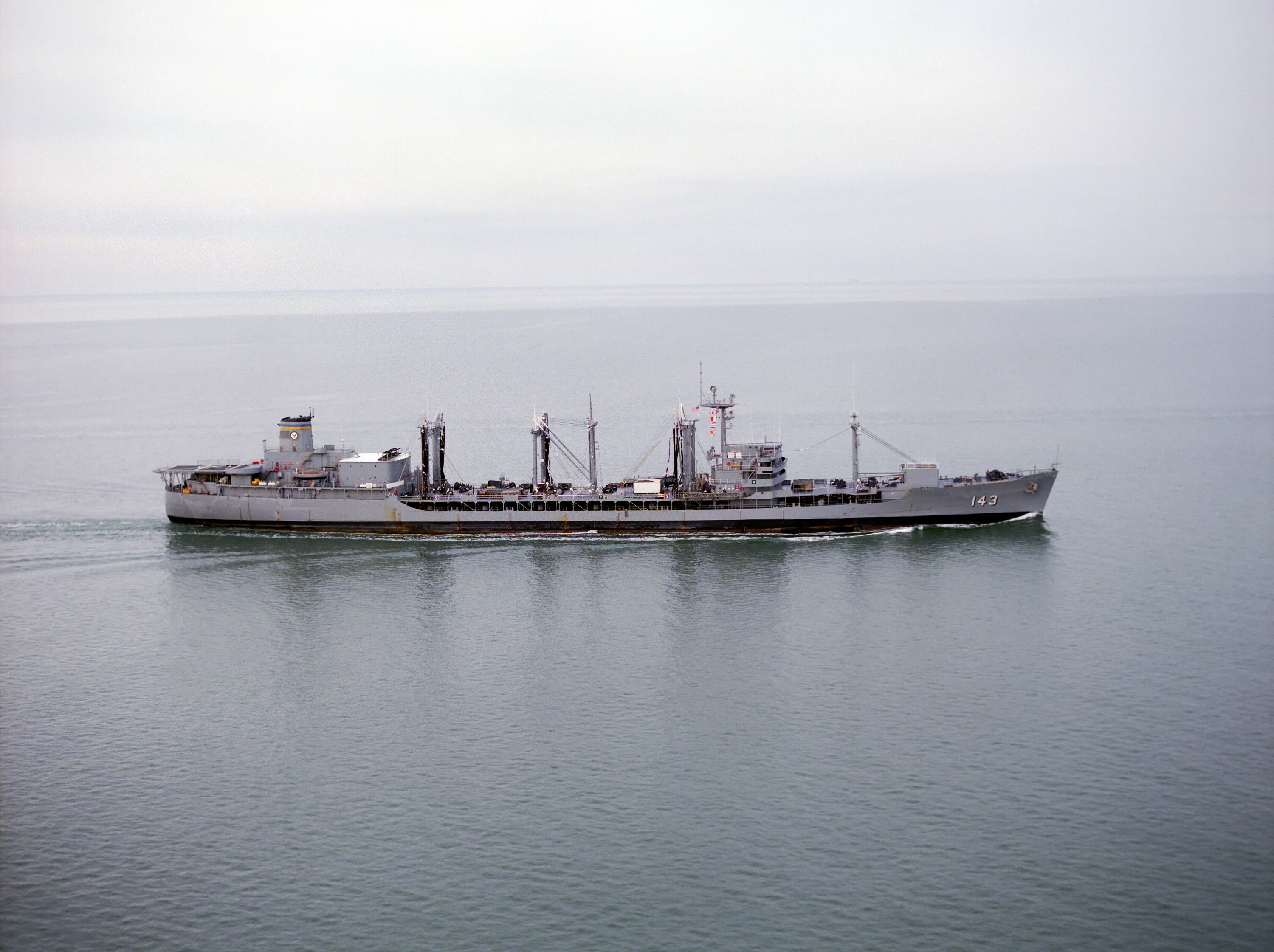 An aerial starboard beam view of the U.S. Military Sealift Command fleet oiler USNS Neosho (T-AO-143) underway, circa in the 1980s. Note: The date given "1 January 1995" has to be incorrect, as Neosho was placed out ot service in 1992. She served with the U.S. Military Sealift Command from 25 May 1978 to 1992.